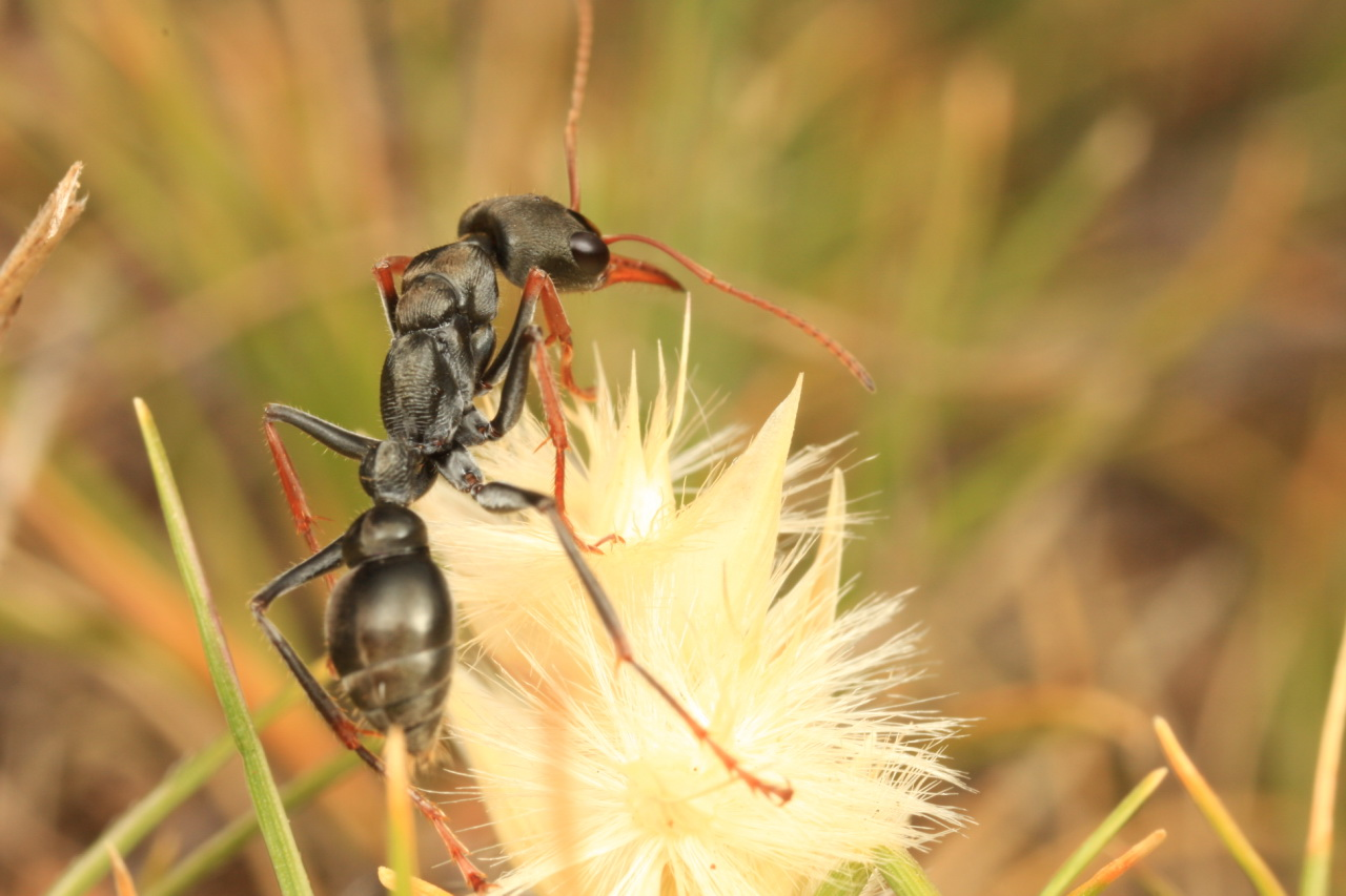 This Myrmecia worker has climbed to the top of a dry flower to have a look around.